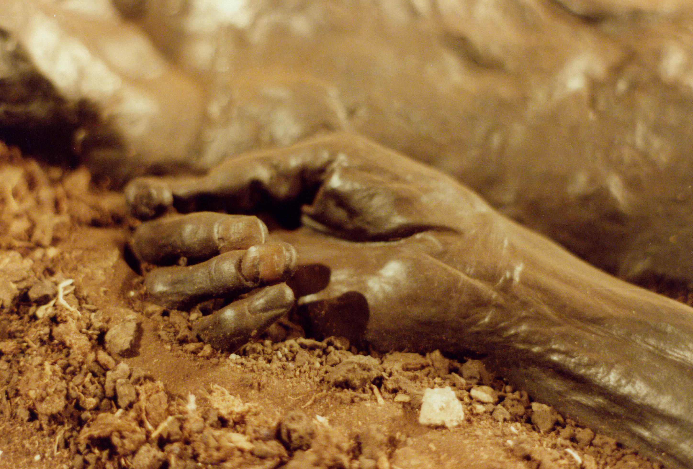 Right hand of the Danish bog body known as Grauballe Man, discovered in 1952.